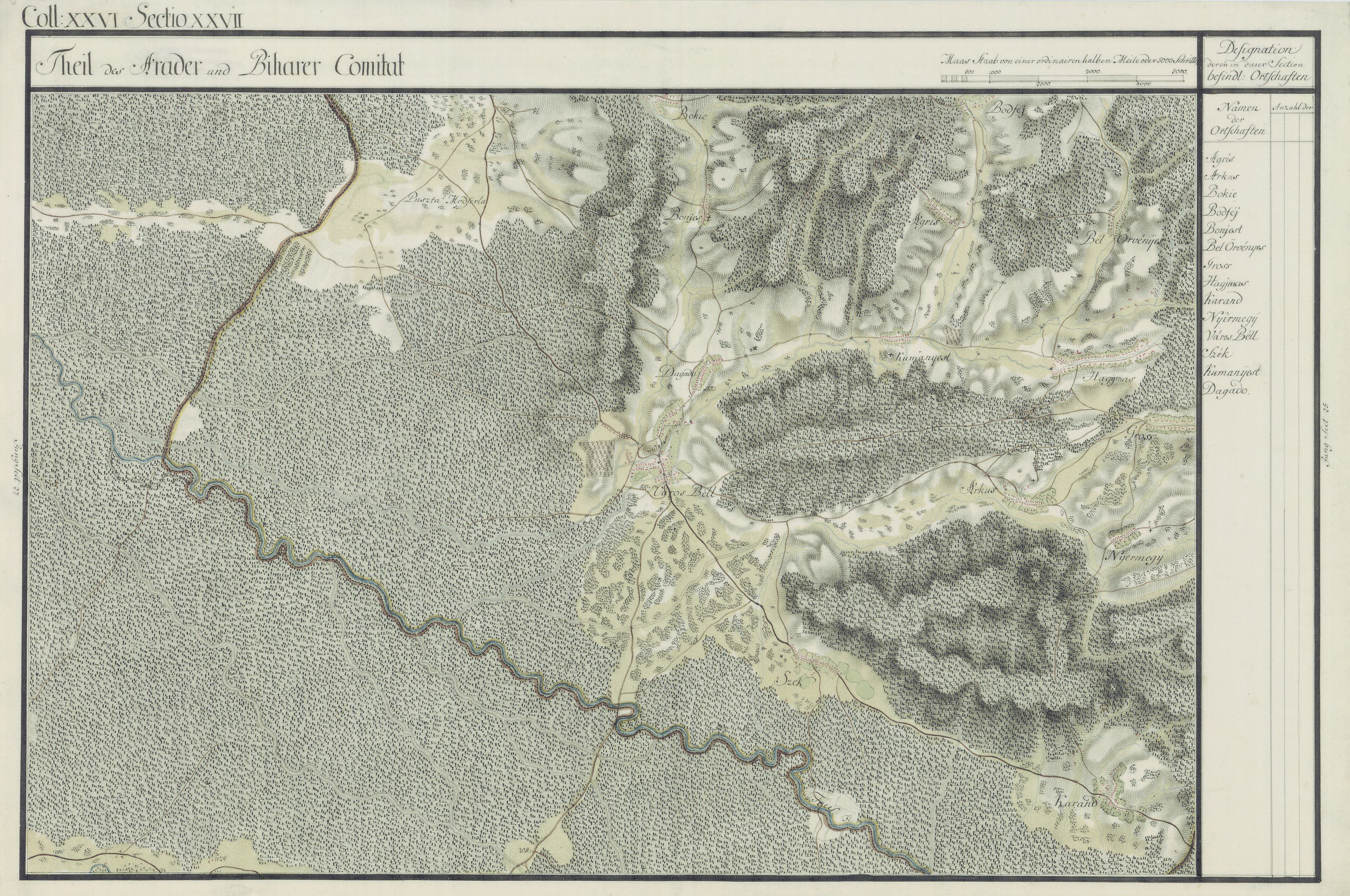 Arad County, 1782-85. Josephinische Landesaufnahme pg.26-27